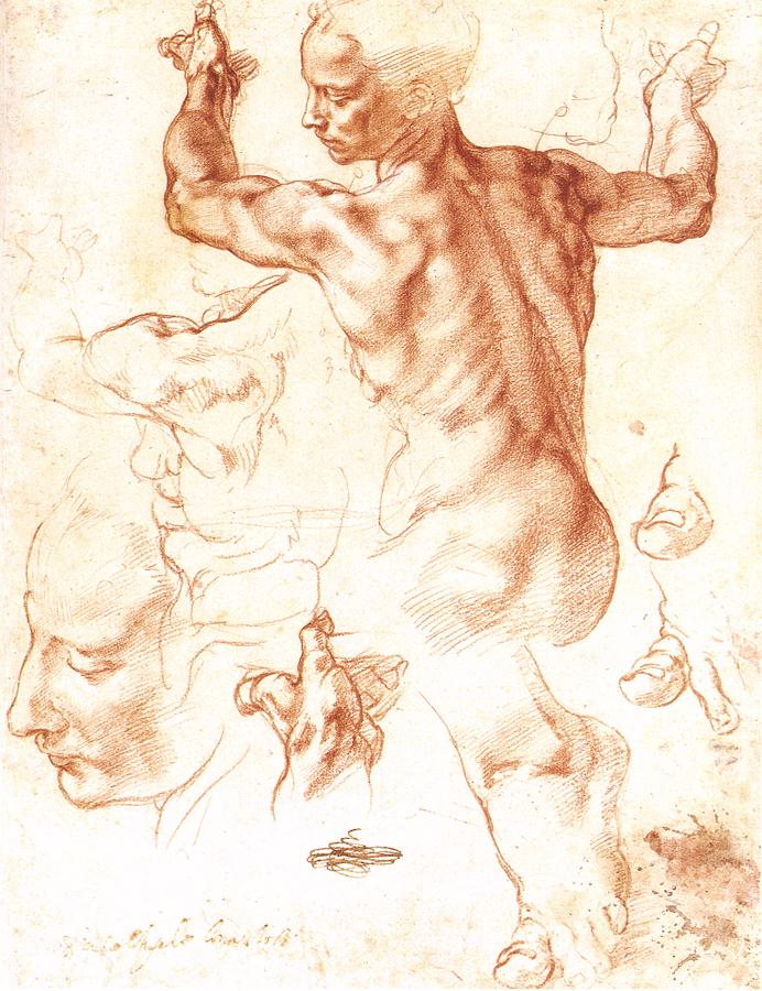 MICHELANGELO Buonarroti Study for the Libyan Sibyl Chalk on paper, 29 x 21 cm Metropolitan Museum of Art, New York